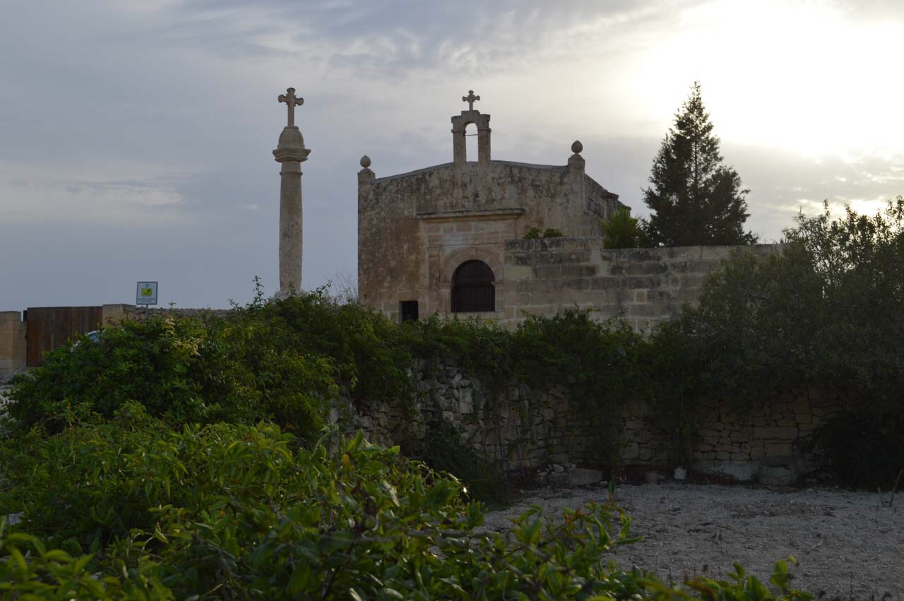 Ħal-Millieri